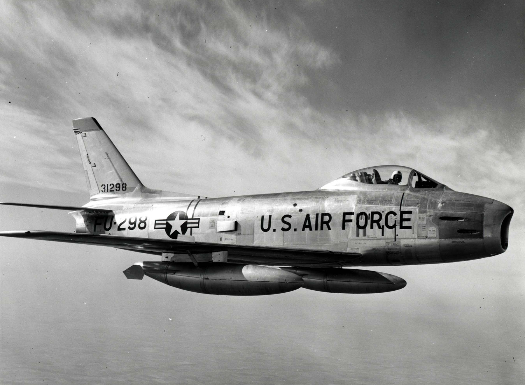 A U.S. Air Force North American F-86H-10-NH Sabre (s/n 53-1298) in flight. This aircraft is today on display at Churubusco, Indiana (USA).